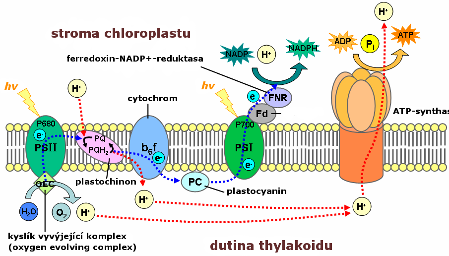 Light-dependent reactions of photosynthesis at the thylakoid membrane.